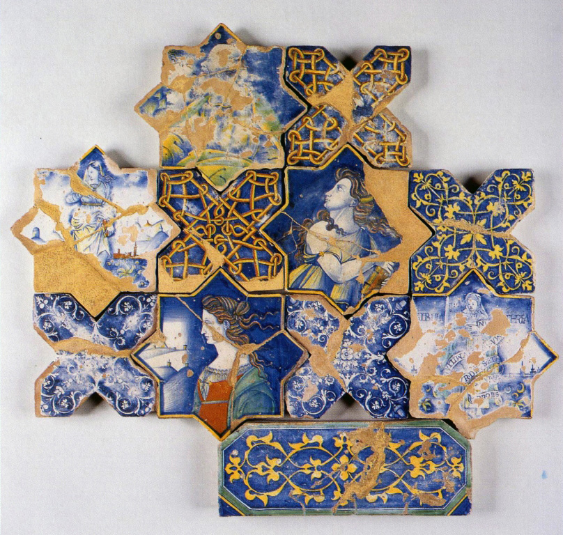 iiiiiiiiiiiiiiiiiiiiiiiiiiiiiiiii